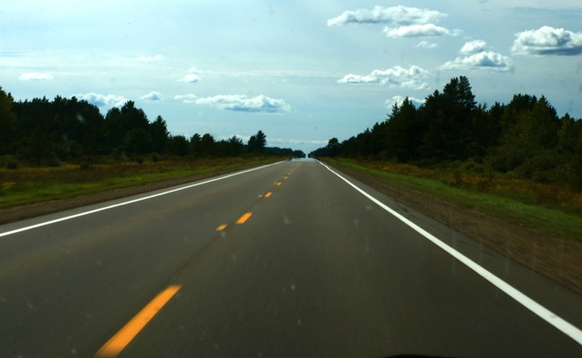 The Seney Stretch, as taken as part of the Hometown Invasion Tour